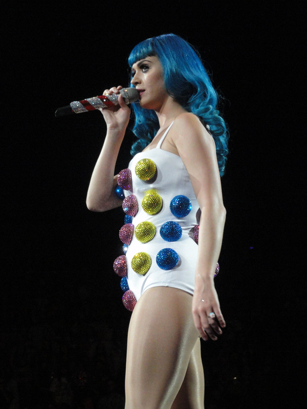 Katy Perry performing live in Seattle, WA in July 2011